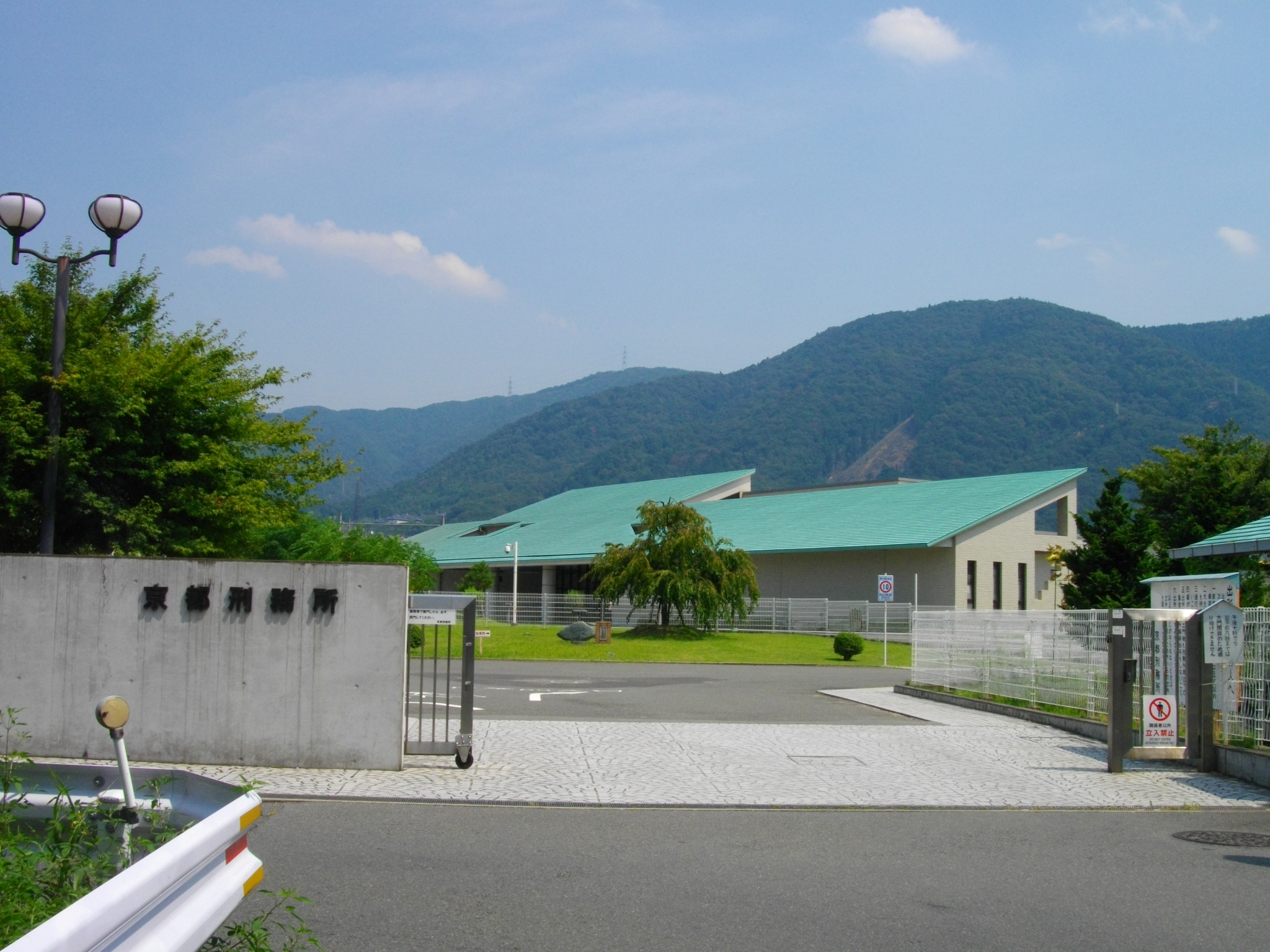 Kyoto Prison